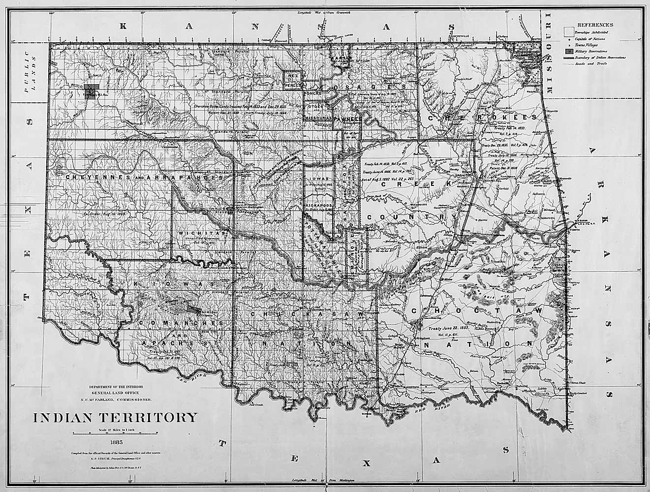 Map of Indian territory in Oklahoma in 1885.